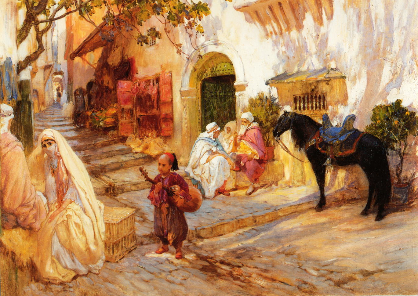 A Street in Algeria